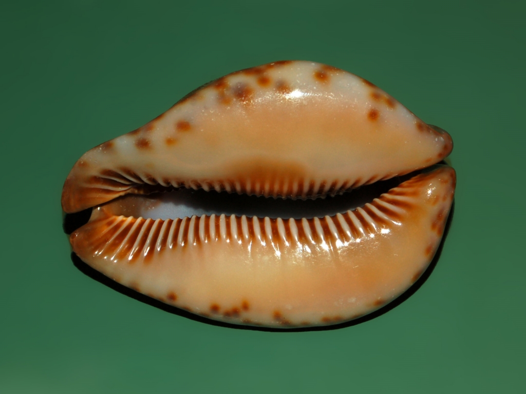 Trona stercoraria - Senegal